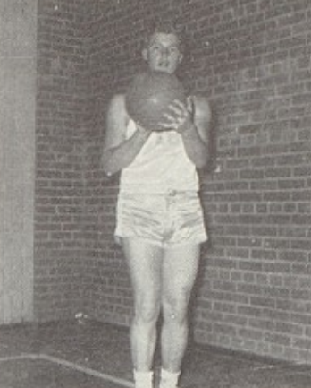 Frank Howard, a future member of the Louisiana House of Representatives, holding a basketball in 1956